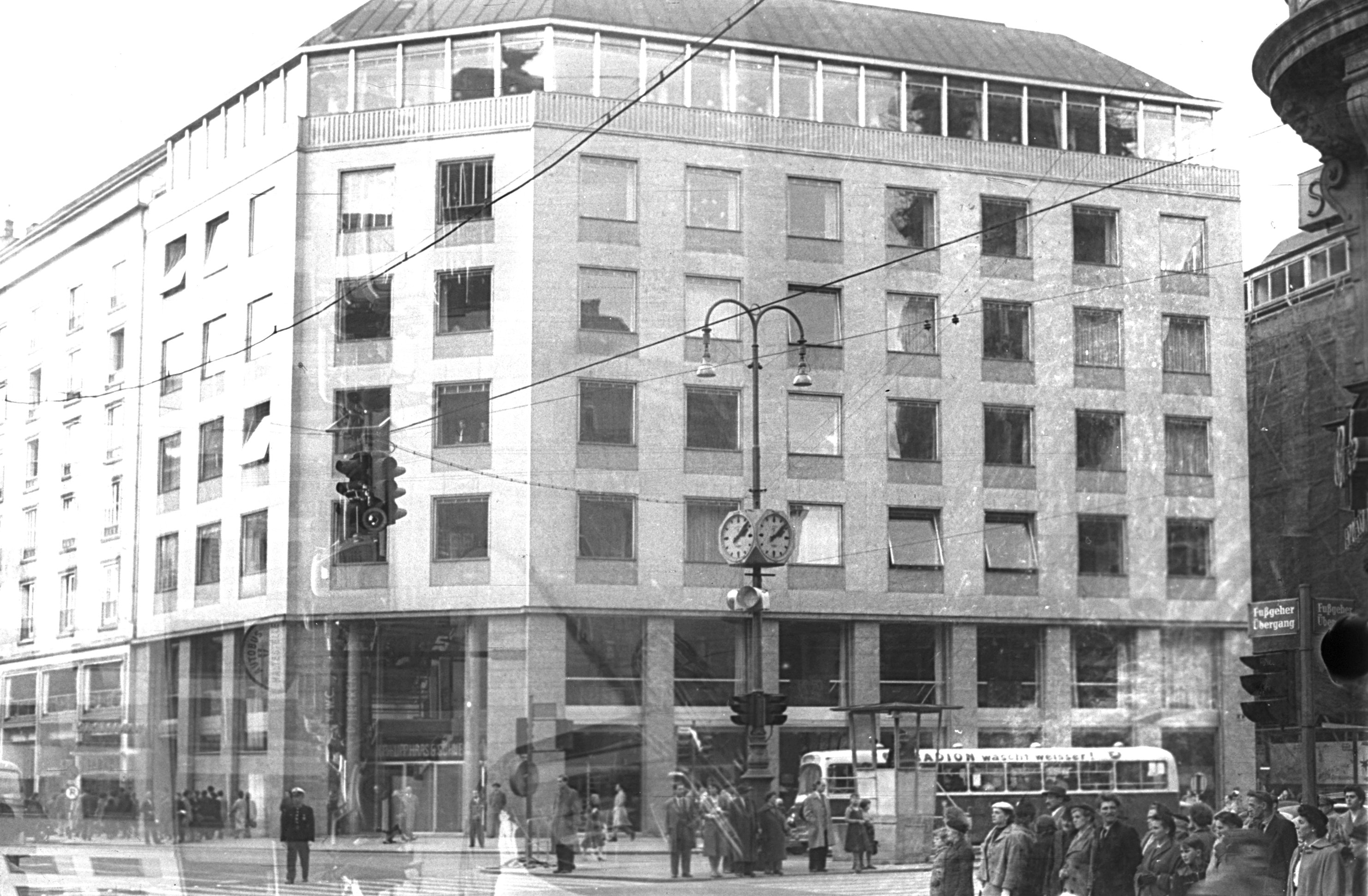 The "Haas-Haus" at the Stephansplatz in Vienna (Austria), rebuilt after World War II (now replaced)